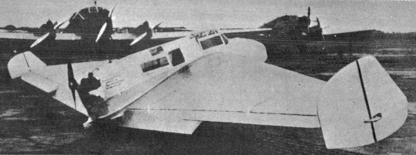 Lippisch Delta 1 photo from NACA aircraft Circular No.159